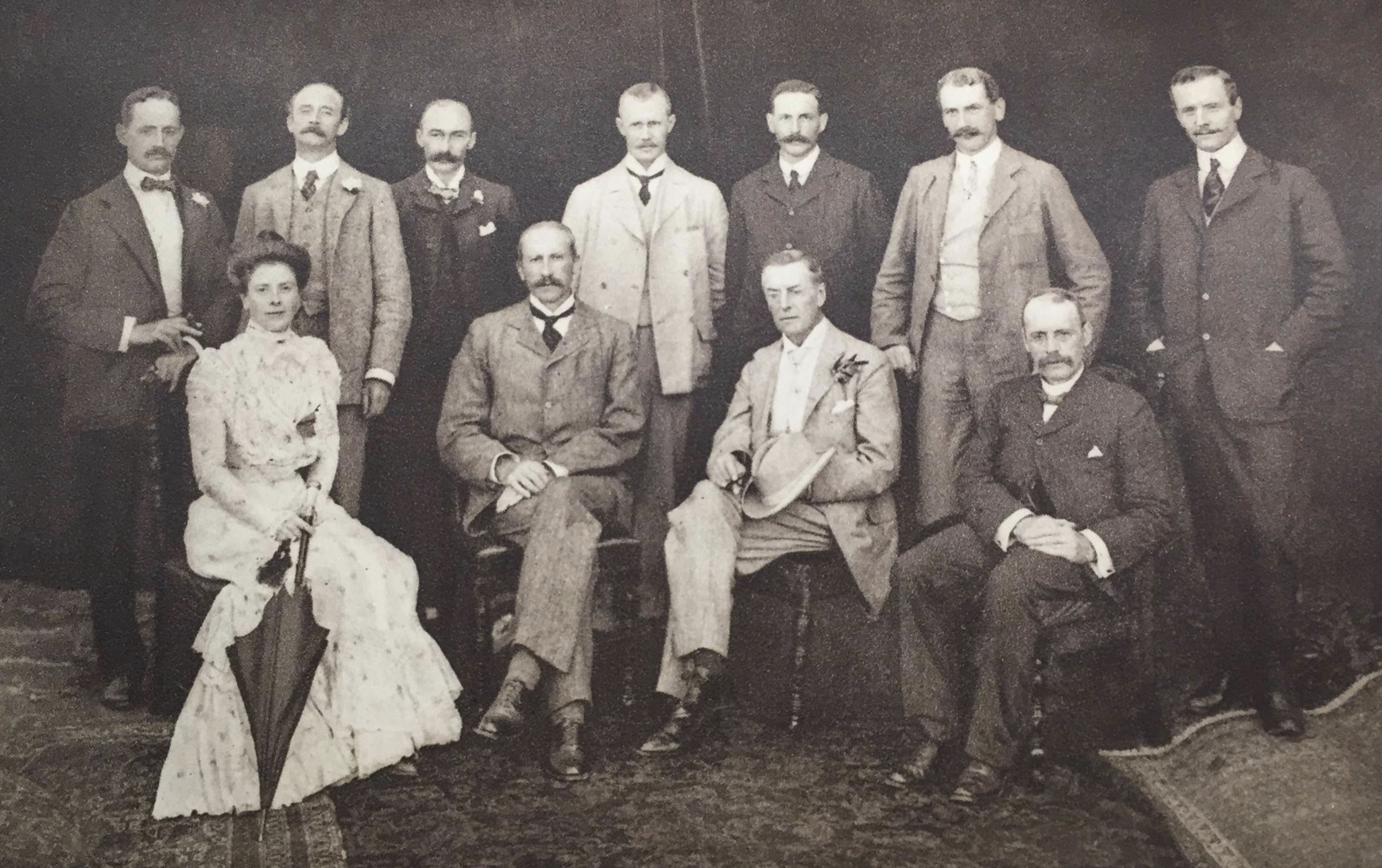 Joseph Chamberlain & Lord Milner in South Africa, taken in 1901.